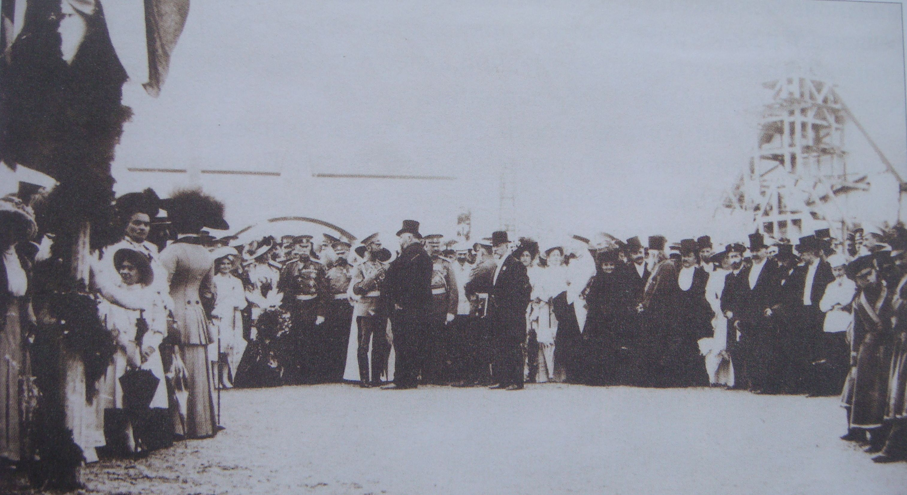 Photoimage of the moment of opening ceremony of Odessa Art & Industry Exposition of 1910, May 25th (June 7th) 1910